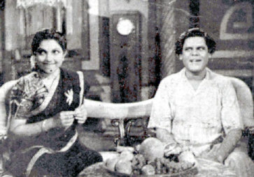 Bhanumathi Ramakrishna and N. S. Krishnan in the 1949 Tamil film Nallathambi